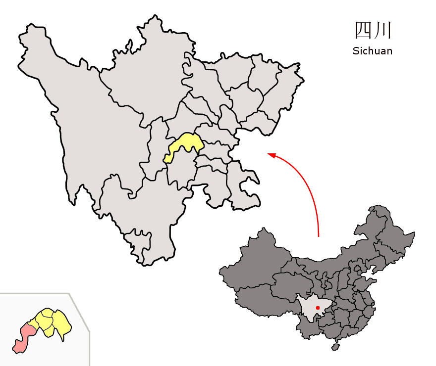 Location of Hongya County (pink) and Meishan Prefecture (yellow) within Sichuan province of China Map drawn in october 2007 using various sources, mainly : Sichuan province administrative regions GIS data: 1:1M, County level, 1990 Sichuan Counties map from